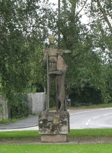 Guy of Warwick by Keith Godwin, gifted to Warwick District Council in 1964. Coventry Road, Warwick, England.